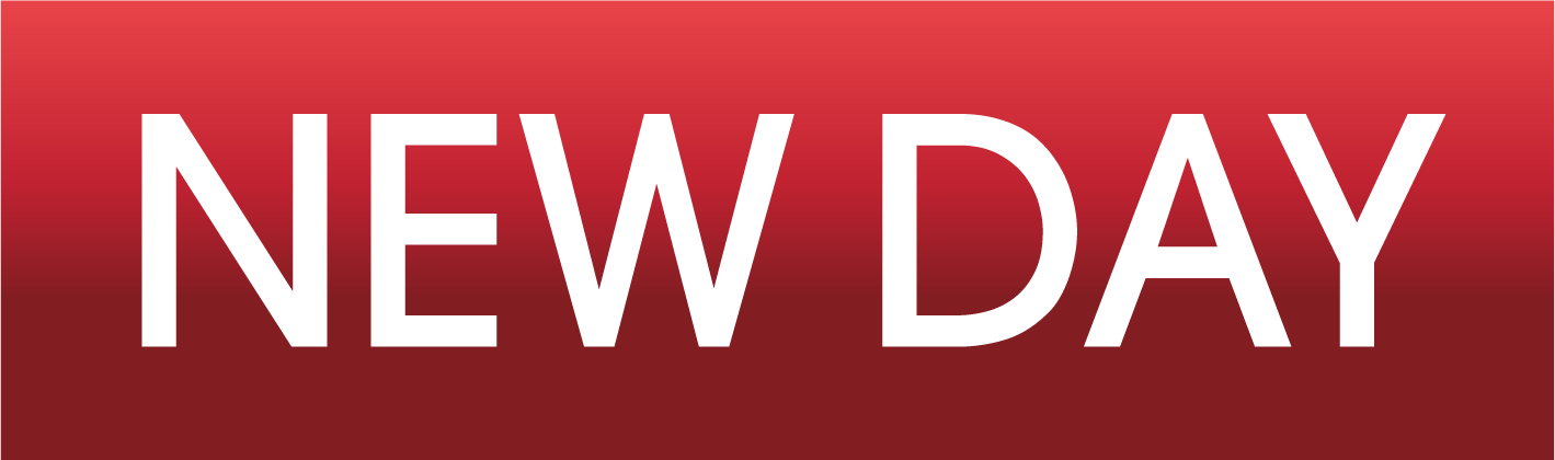 CNN's "New Day" Logo